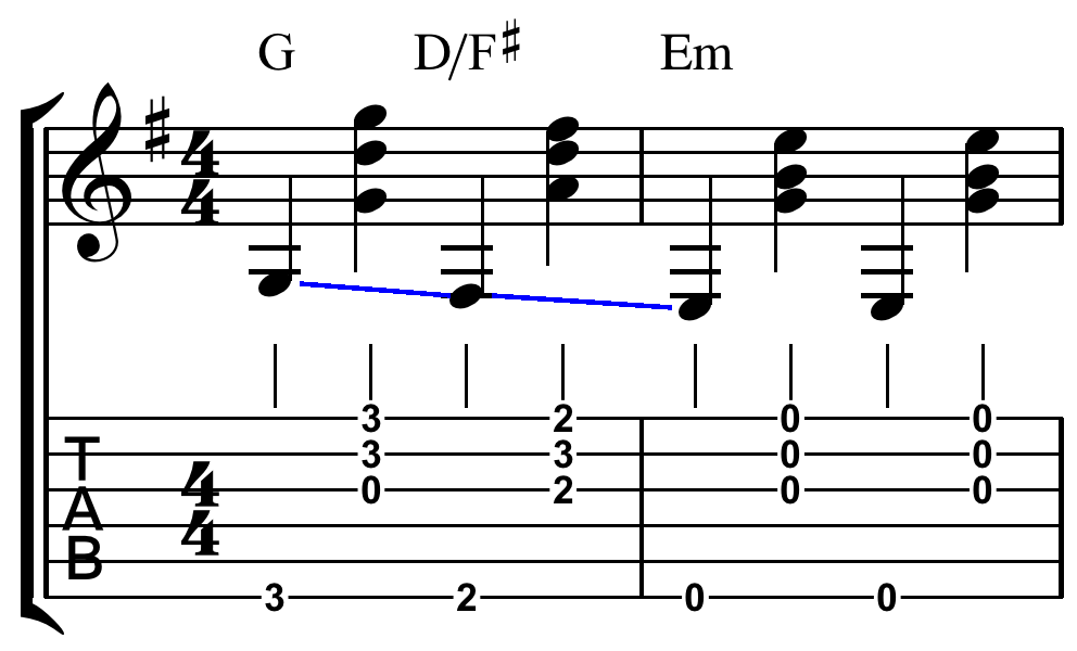 Walkdown in G: G D/F# E (I VI vi).